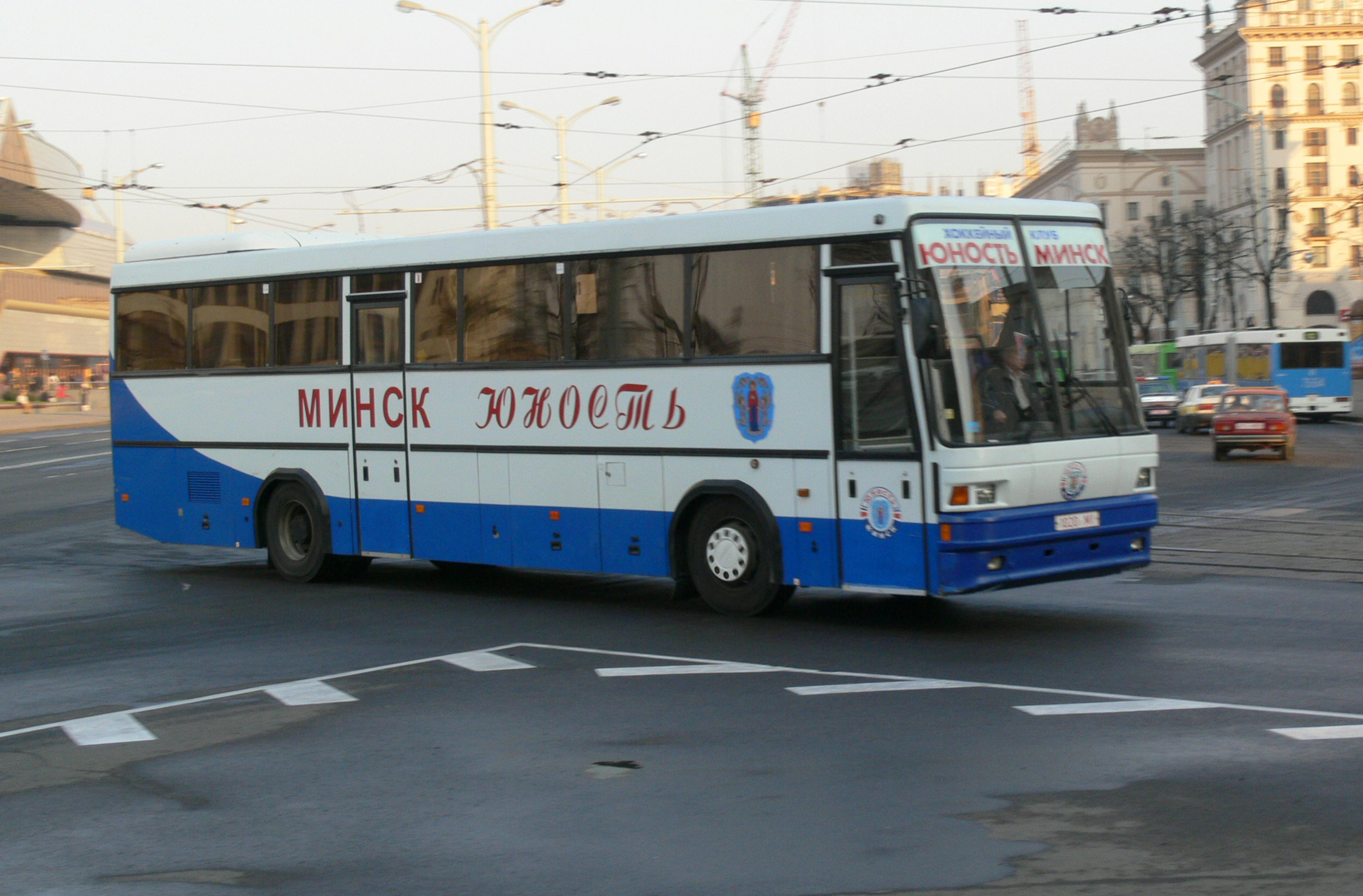 MAZ 152 coach in Minsk, Belarus.